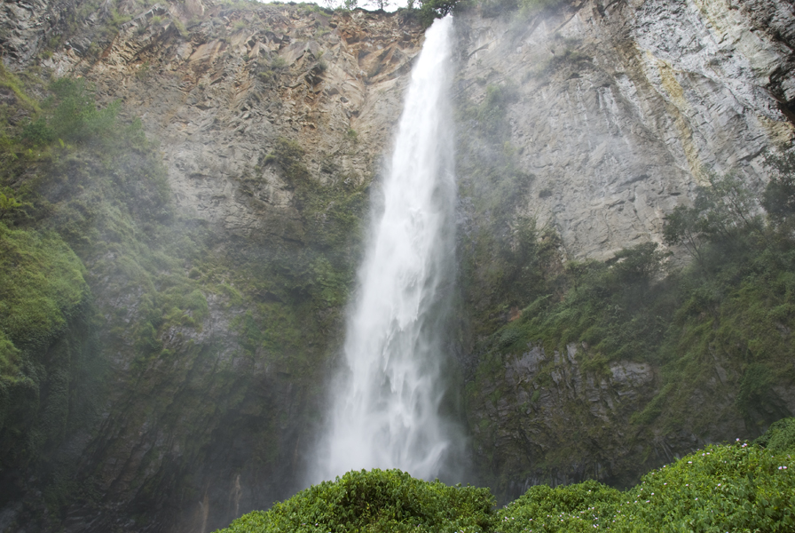 Вид водопада Сиписо-Писо снизу (View Sipiso-Piso Falls From The Lower Observation Point)